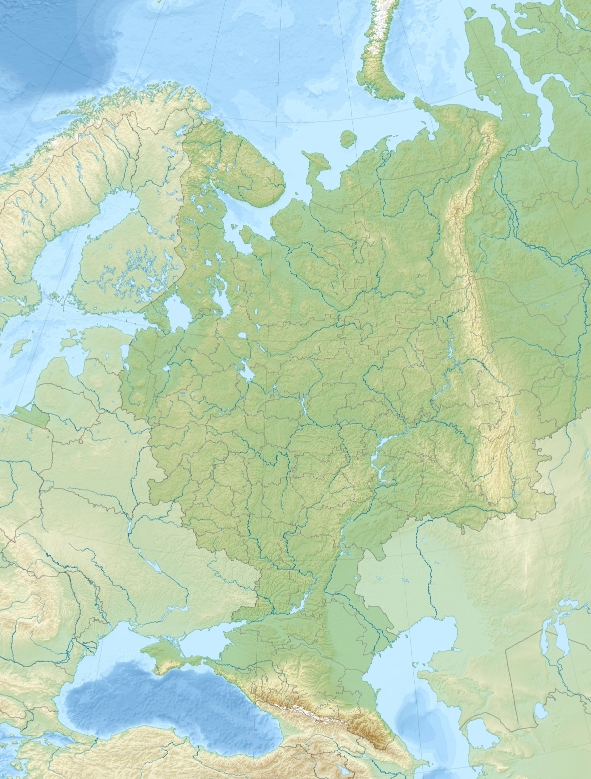 Relief location map of European Russia (with Crimea). Projection: Lambert azimuthal equal-area projection. Area of interest: N: 75.0° N S: 40.0° N W: 25.0° E E: 60.0° E Projection center: NS: 57.5° N WE: 42.5° E GMT projection: -JA42.5/57.5/20c GMT region: -R25.450860698632475/38.37411418933942/86.79037939442836/70.79910933370674r GMT region for grdcut: -R-2.0/38.0/87.0/76.0r Relief: SRTM30plus. Made with Natural Earth. Free vector and raster map data @ .